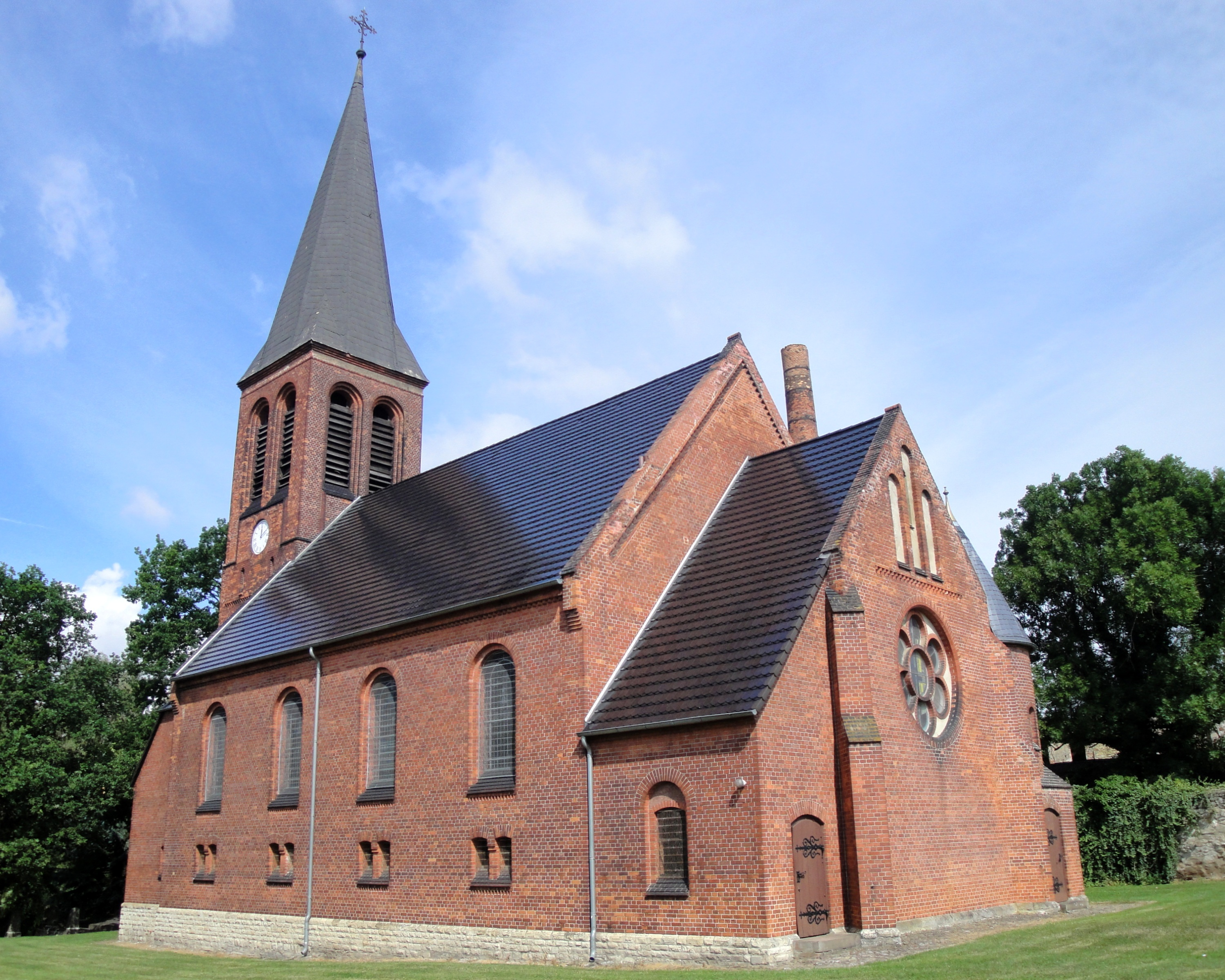 Church St. Jakobi in Dreileben, Germany